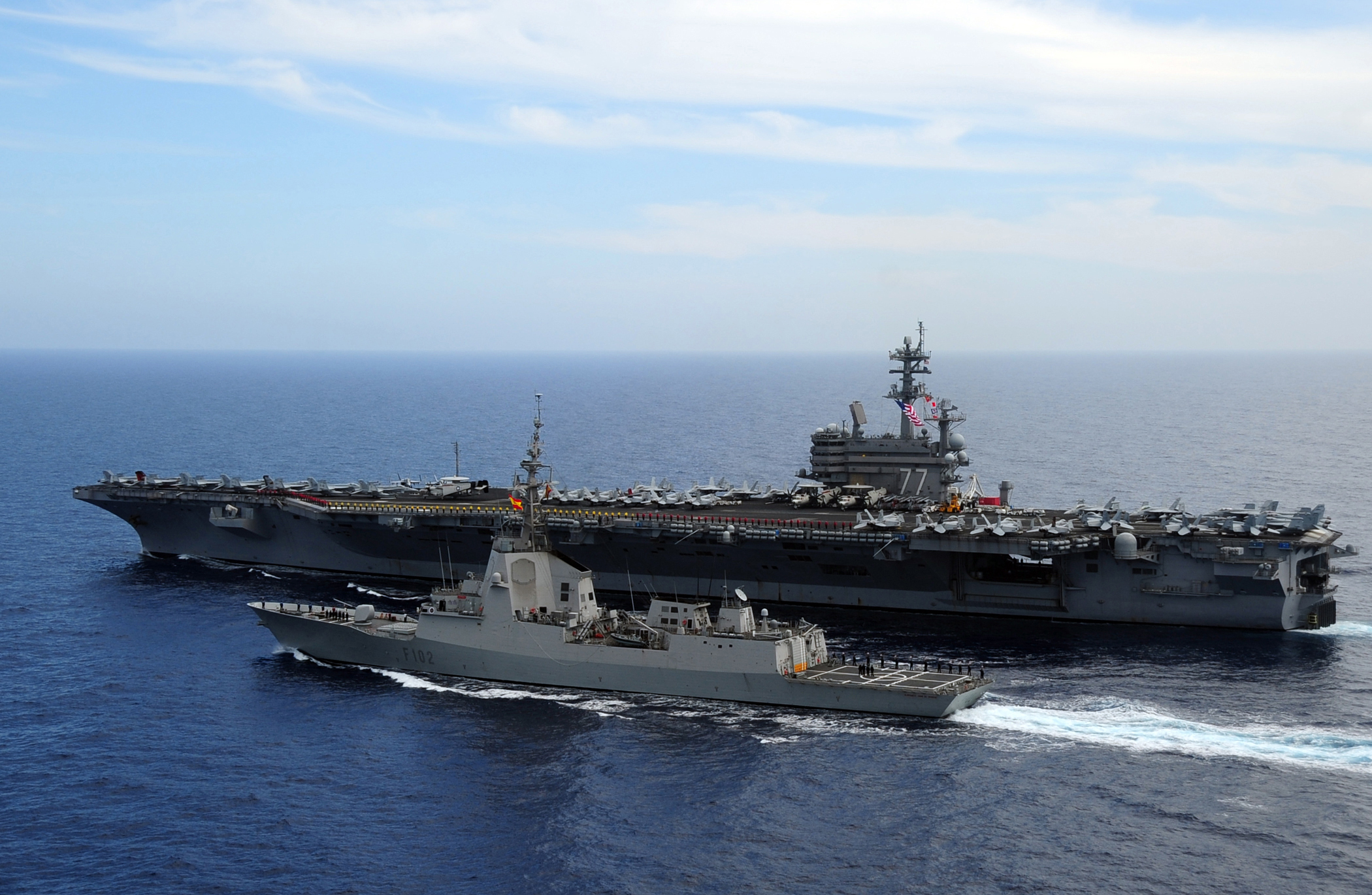 MEDITERRANEAN SEA (June 9, 2011) The Spanish navy frigate ESPS Almirante Juan De Borbon (F 102) is underway with the aircraft carrier USS George H.W. Bush (CVN 77). George H.W. Bush is supporting maritime security operations and theater security cooperation efforts in the U.S. 6th Fleet area of responsibility. (U.S. Navy photo by Mass Communication Specialist 2nd Class Nicholas Hall/Released)